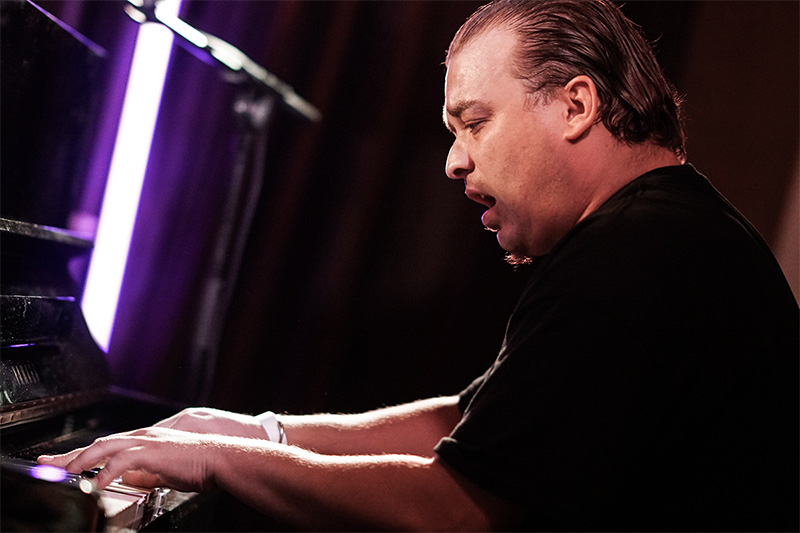 Carl Winther at Aarhus Jazz Festival 2017